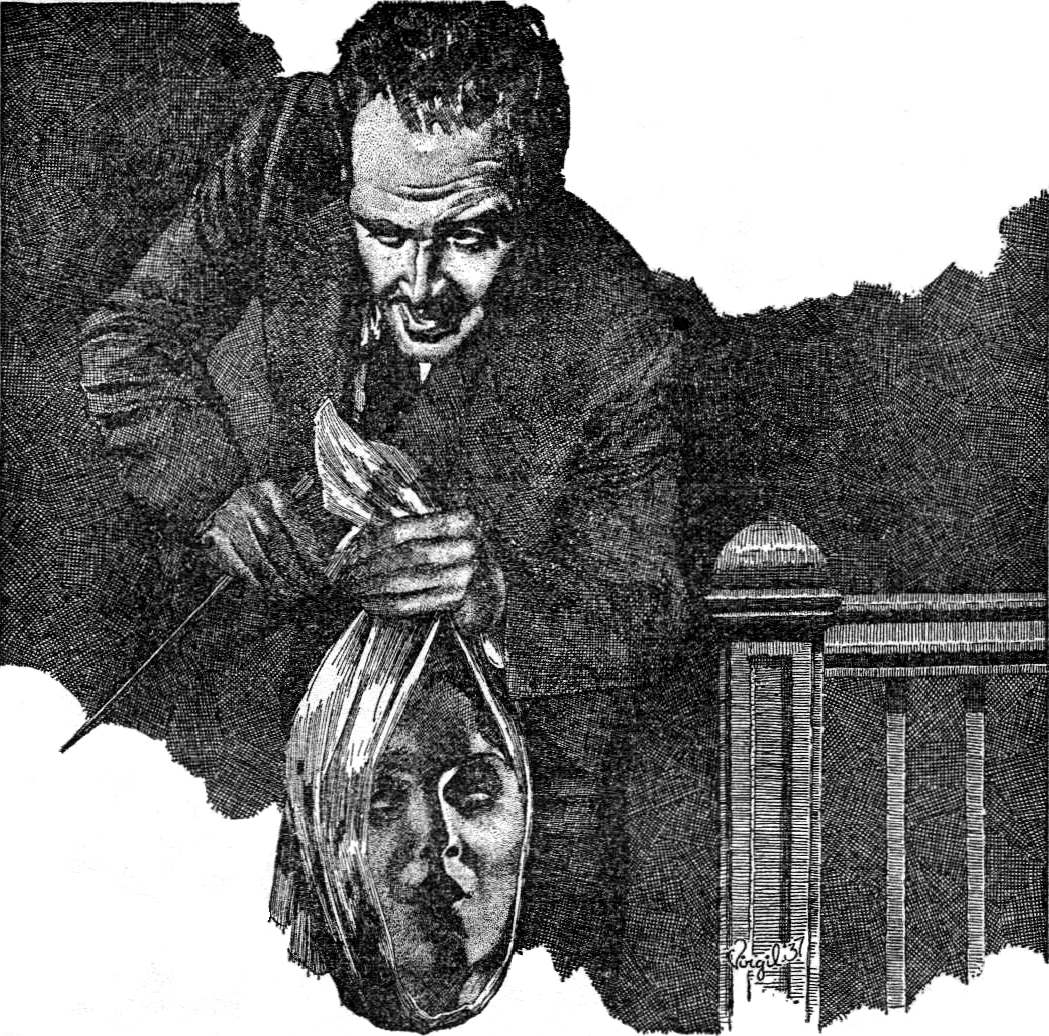 Main illustration for the story "The Homicidal Diary". Internal illustration from the pulp magazine Weird Tales (October 1937, vol. 30, no. 4, page 387).